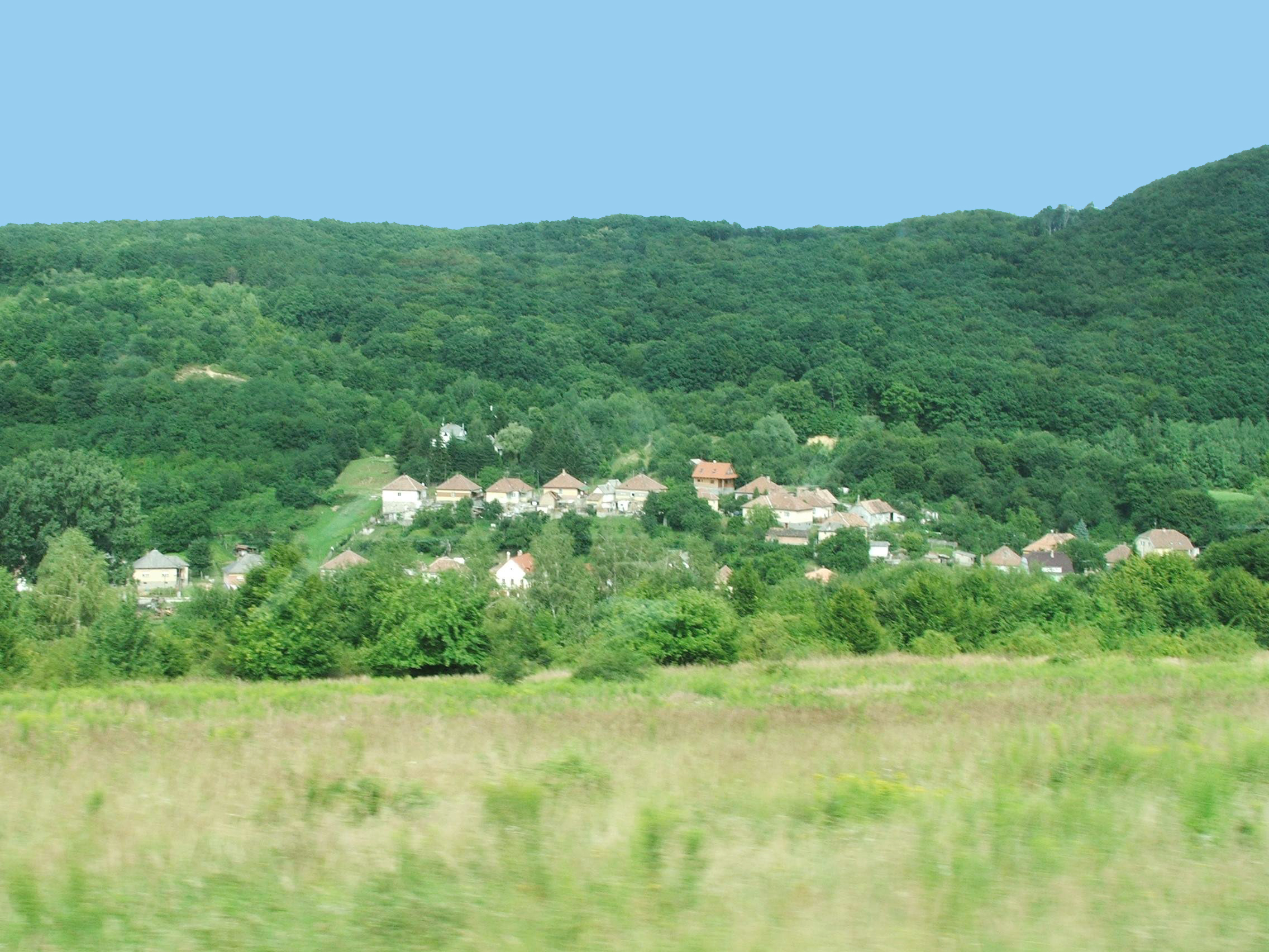 Pilisszentlélek, Hungary